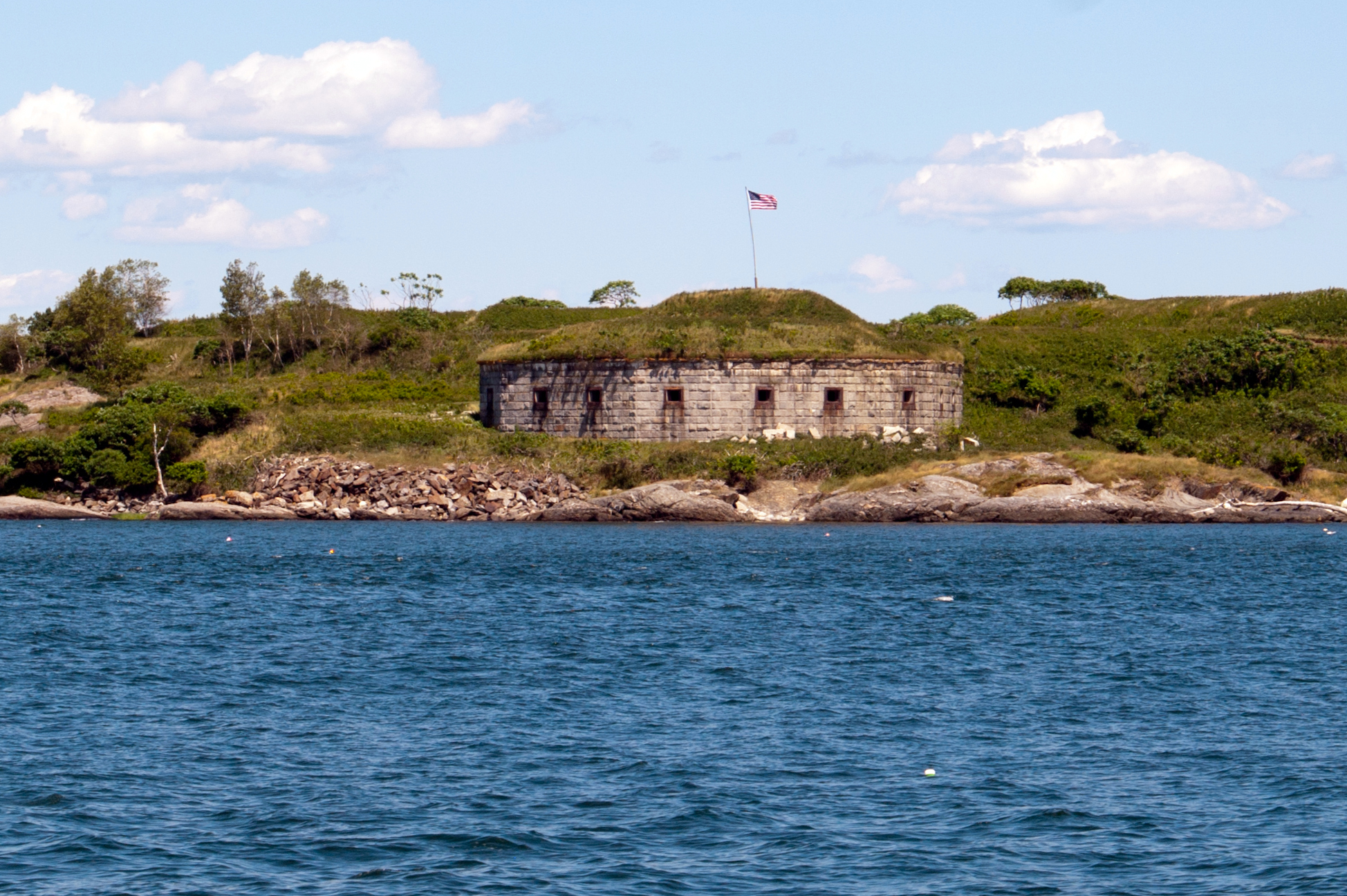 Fort Scammel in Casco Bay.